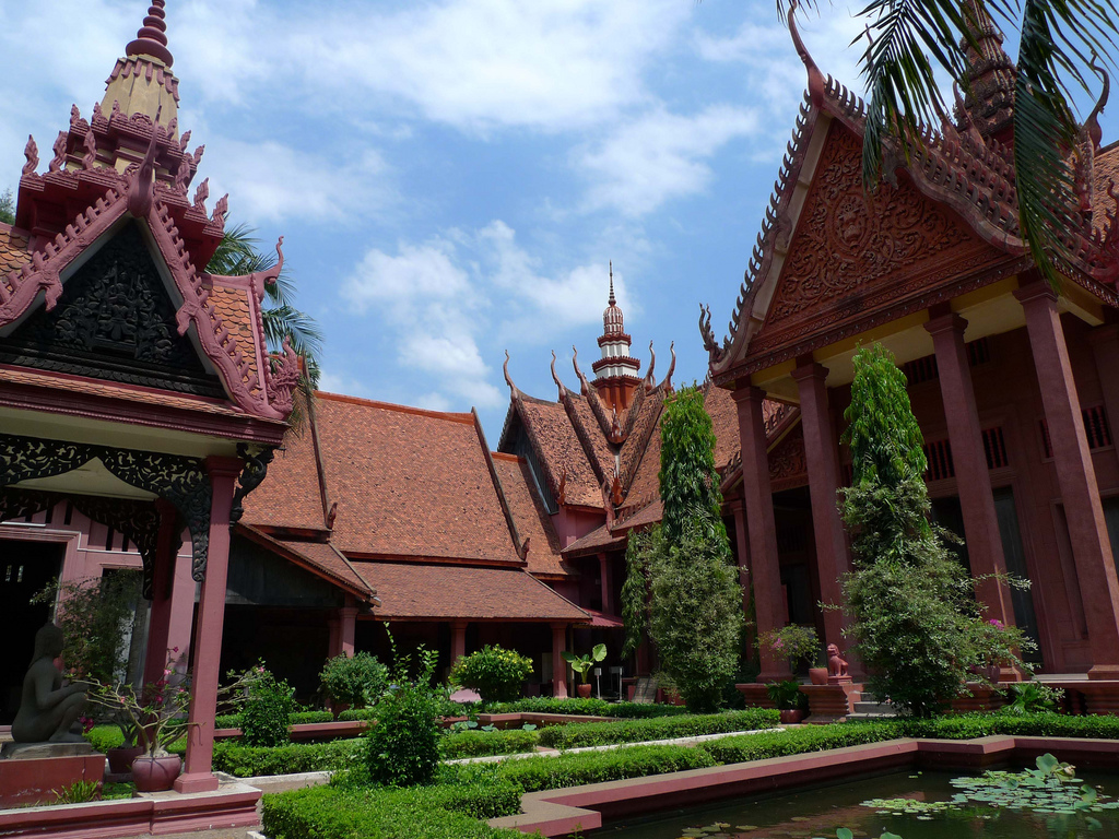 The National Museum of Cambodia in Phnom Penh